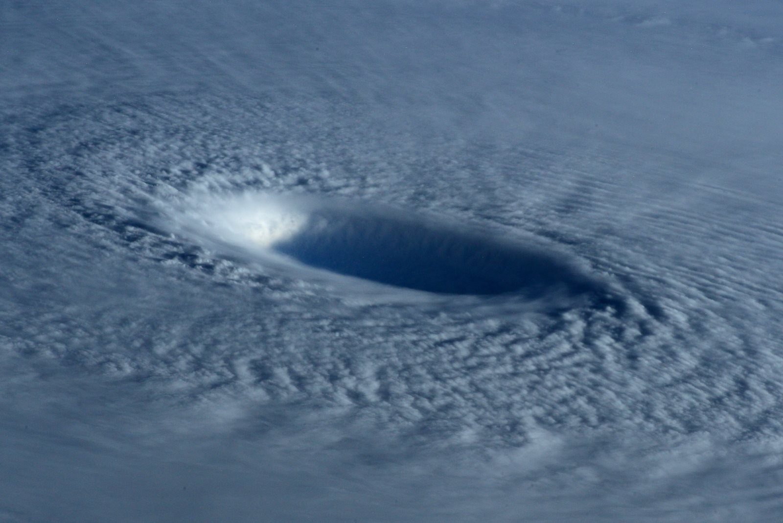 The eye of Super Typhoon Maysak from the ISS